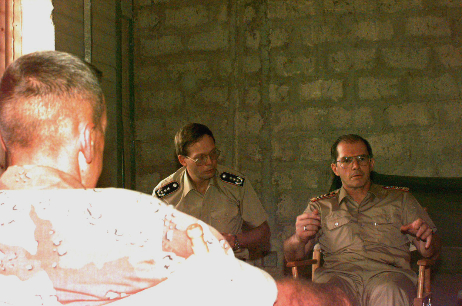 LT. GEN. Robert Johnston, Commander, Joint Task Force (JTF) Somalia, meets Germany's General Naumann, Chairman, Joint Chiefs of STAFF at the American Embassy compound.